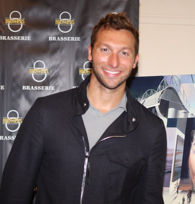 Ian Thorpe